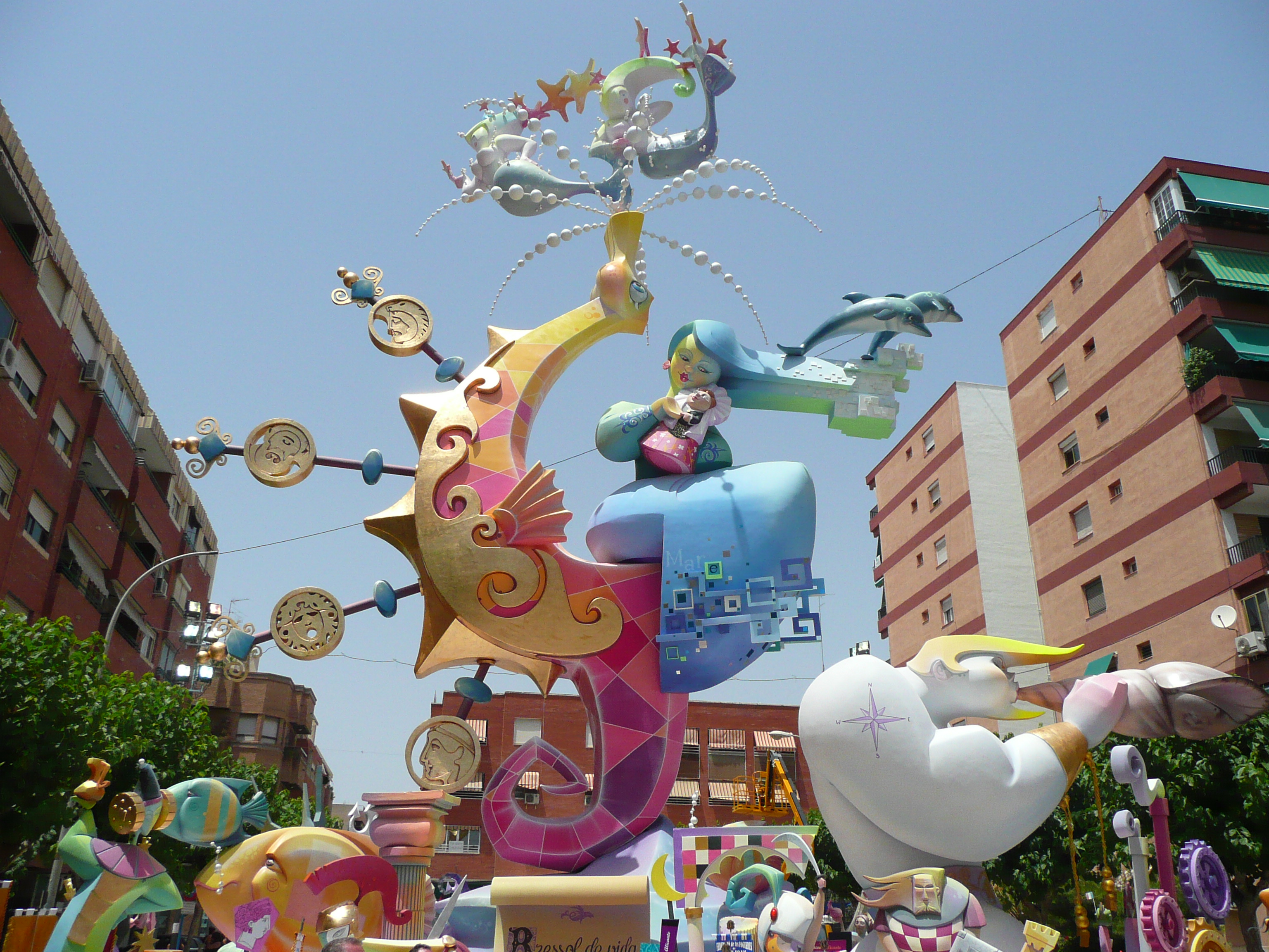 Hogueras 2008 - Florida Portazgo Hogueras 2008 set by Fernando Pastor at Flickr